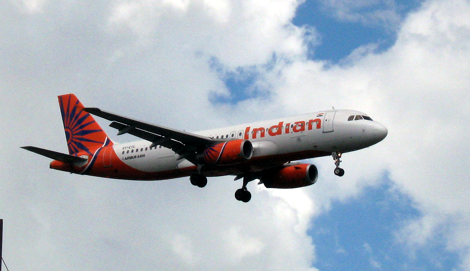 Indian Airbus A320